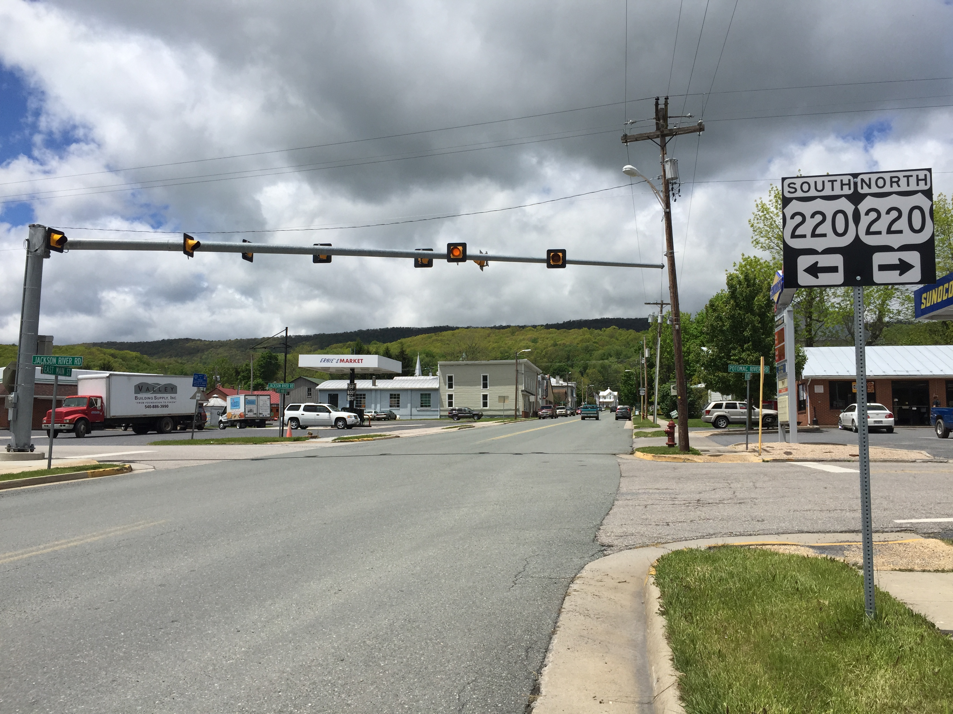 View west along Main Street (U.S. Route 250) at the intersection with Potomac River Road and Jackson River Road (U.S. Route 220) in Monterey, Highland County, Virginia